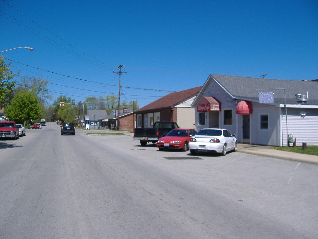 Central business district in Harrisburg, Ohio.